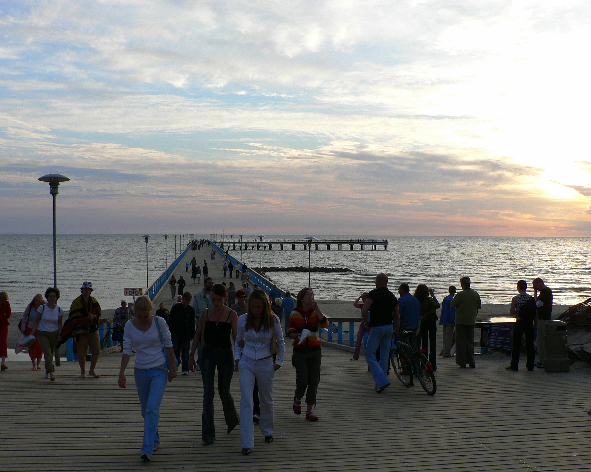 Tyszkiewicz peer in Palanga, Lithuania